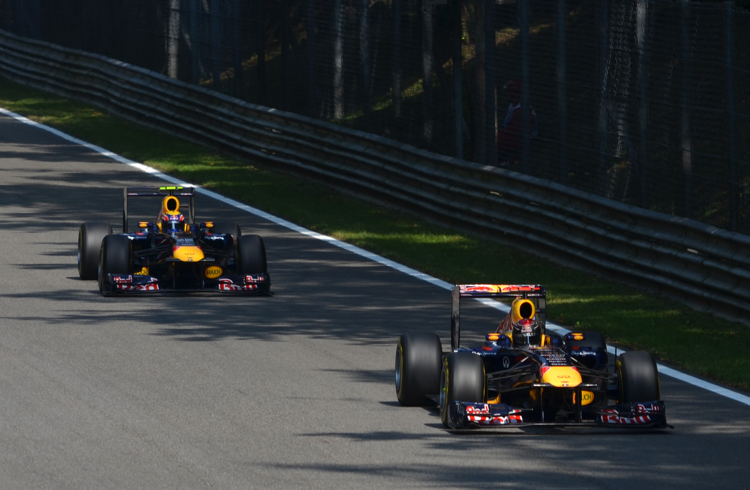 Sebastian Vettel leads Mark Webber in the Red Bull - Renault RB7 on the run down to the Ascari chicane at Monza during second practice for the 2011 Italian Grand Prix.